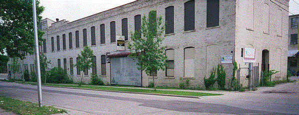 Front View of Esser Paint factory in Milwaukee